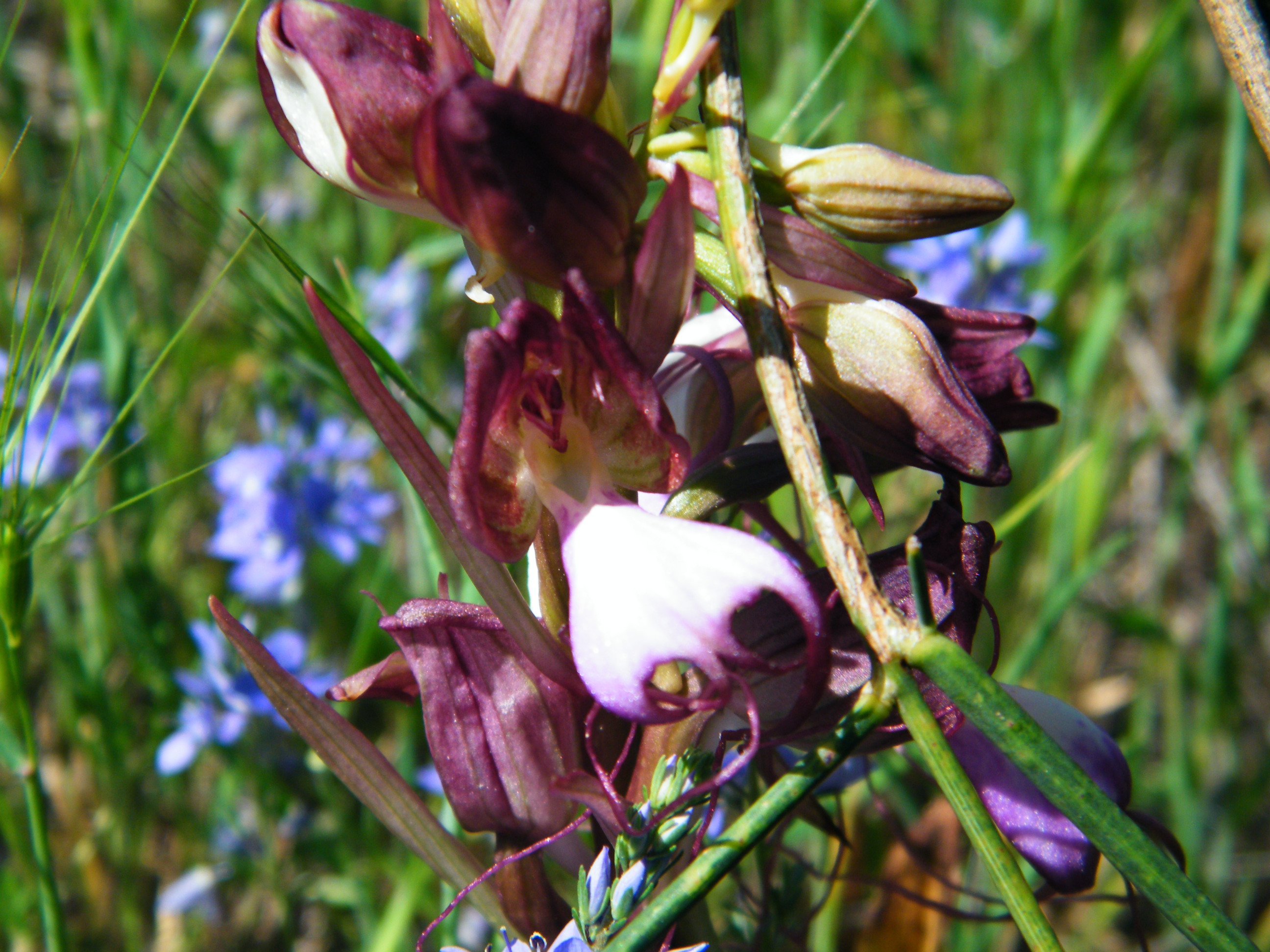 Comperia comperiana in Laspi Bay